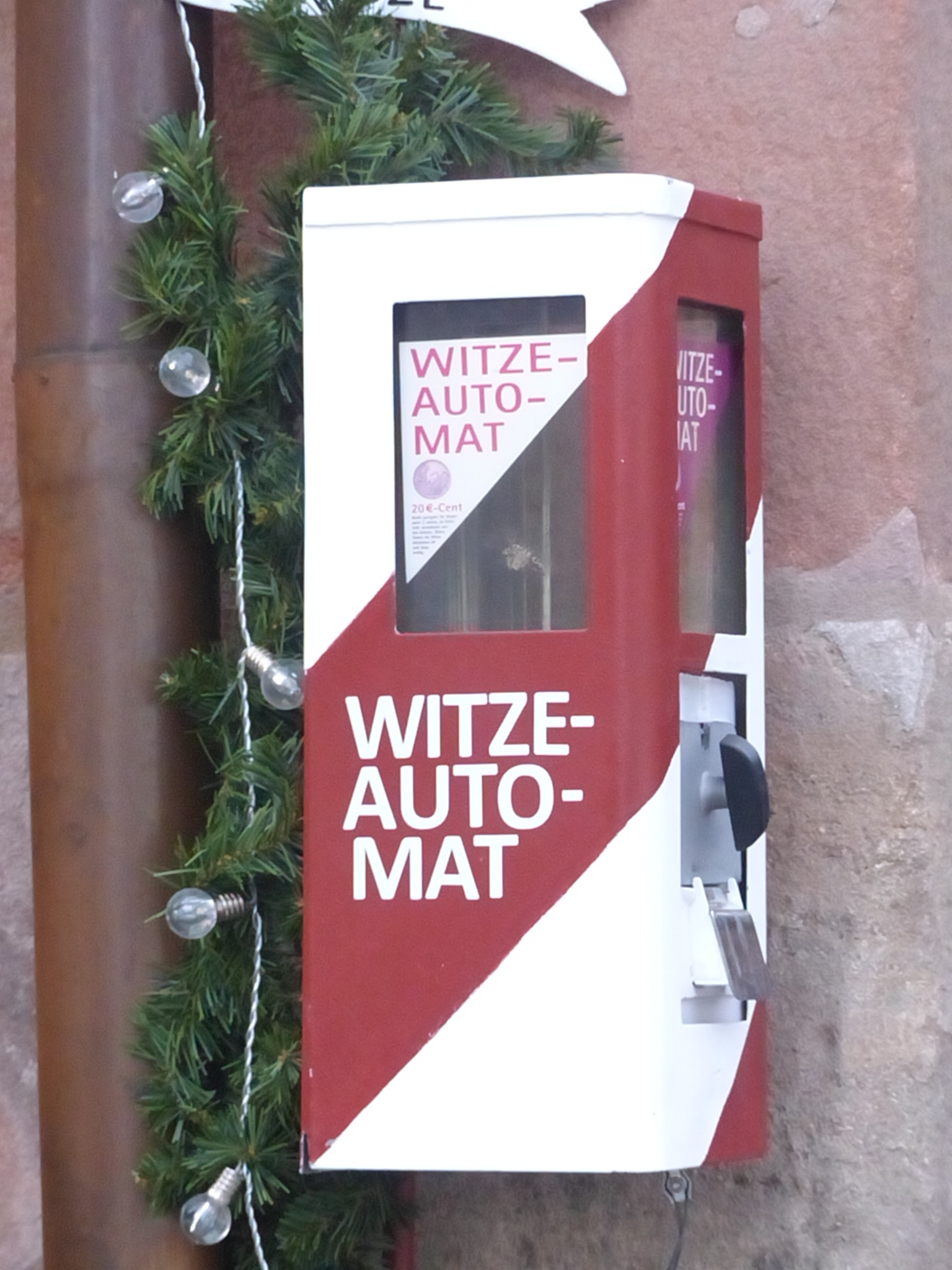 A joke machine, situated in the eastern part of the city of Nuremberg